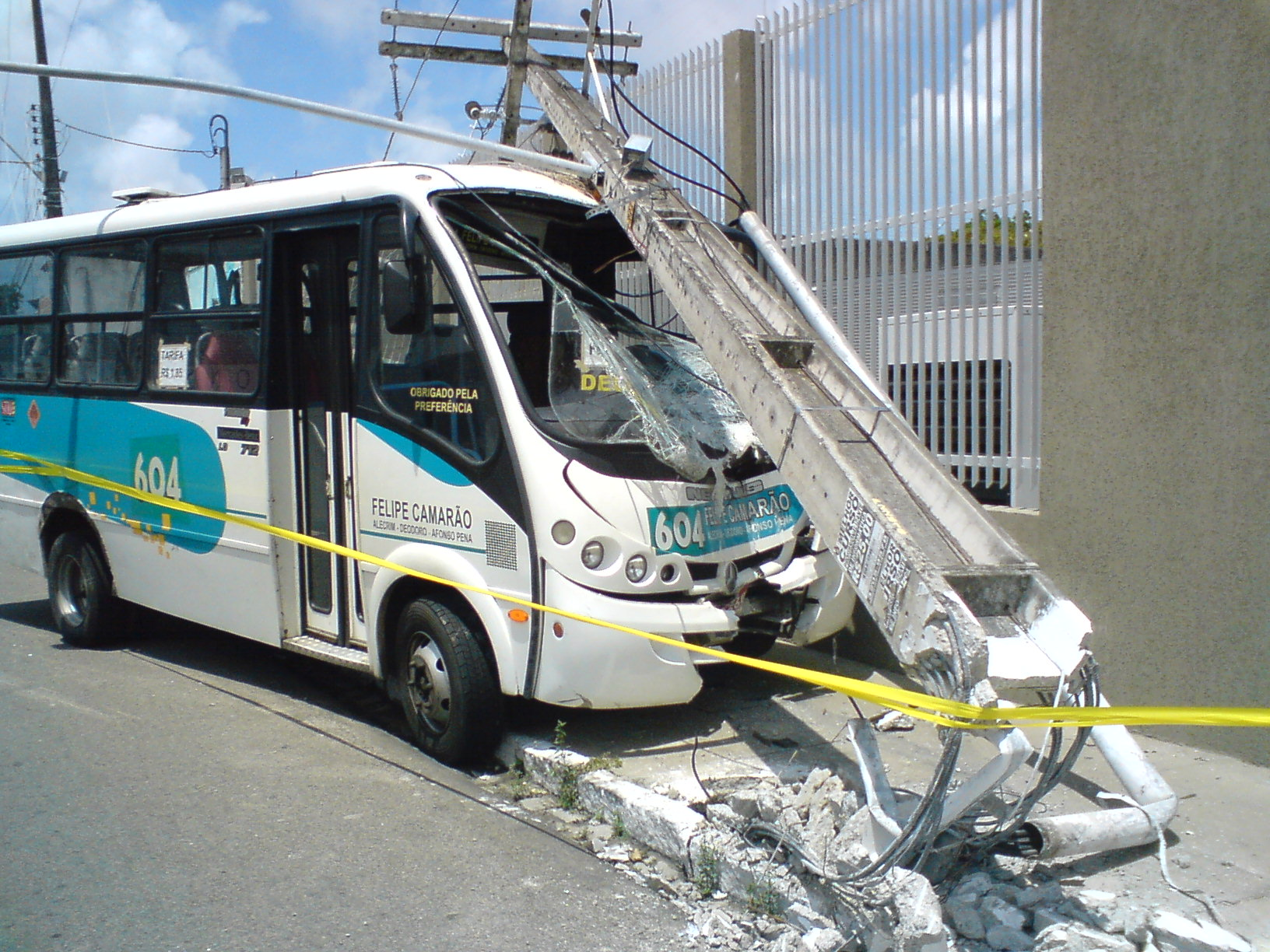 Neobus Thunder minibus with Mercedes-Benz LO 712 chassis crash, where the minibus crossed the avenue and crashed into a power pole, causing an electric power supply disruption in the region.